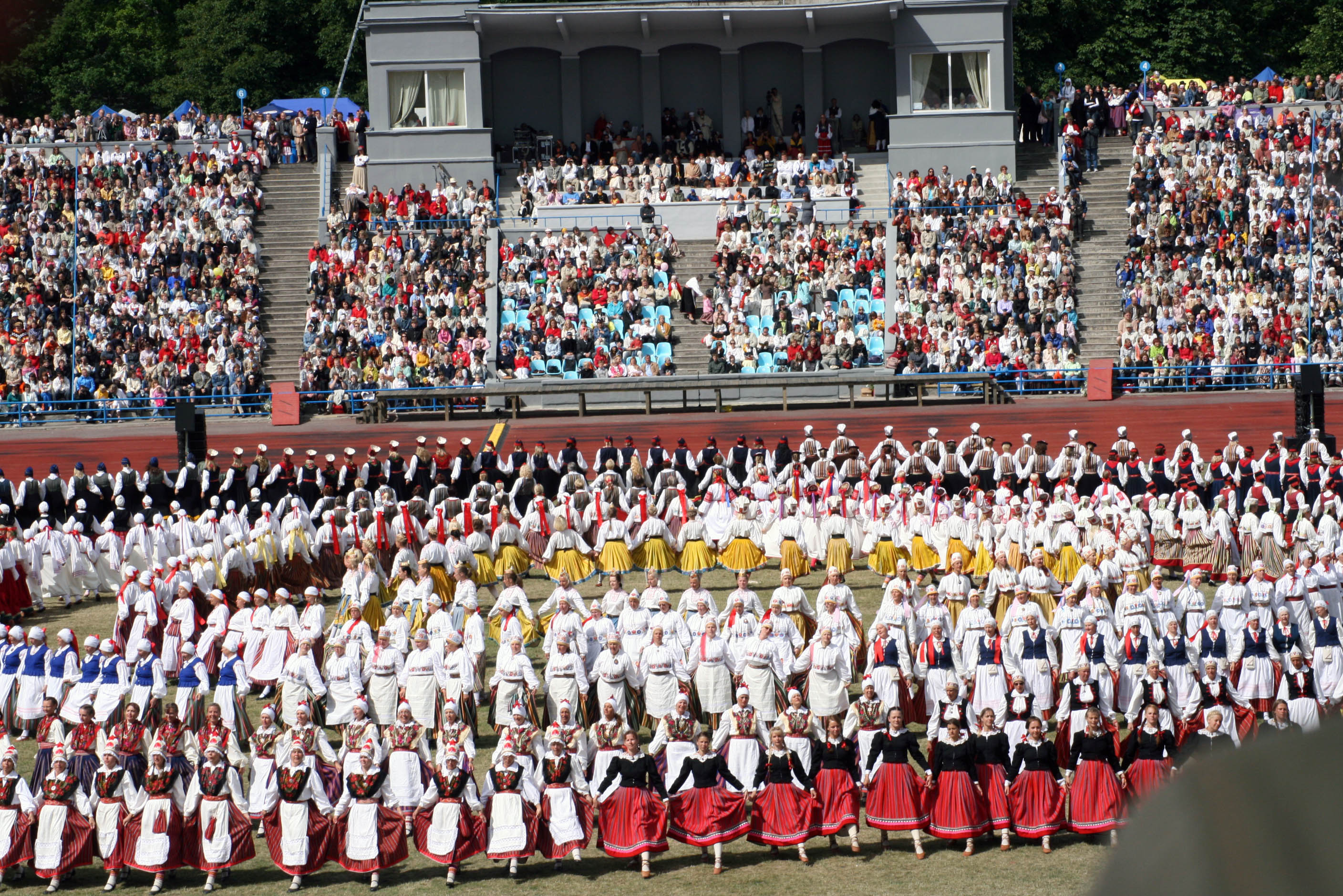 Tallinn dance festival 2009